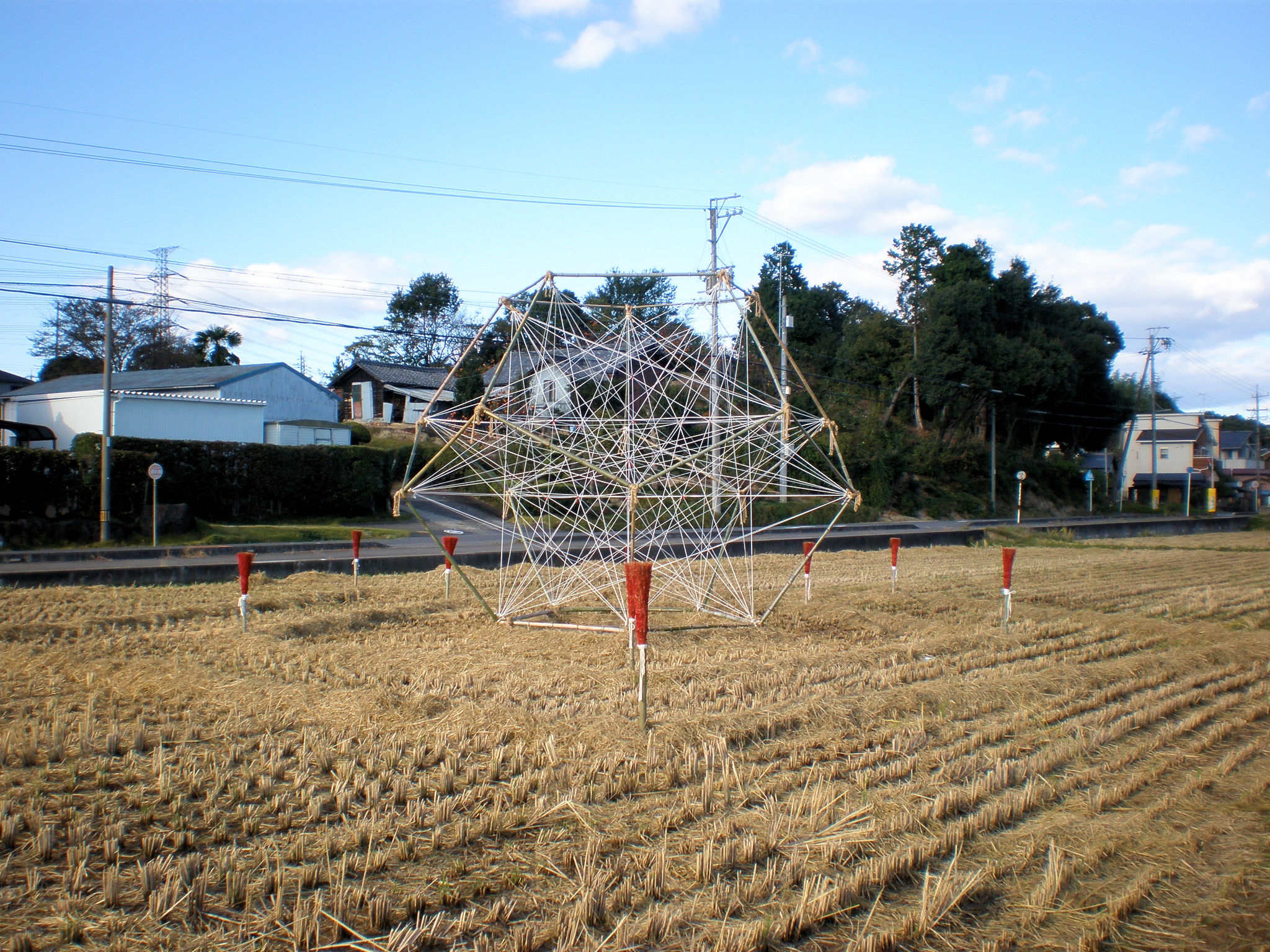 Bamboo Installation in Okusa, Komaki, Aichi Pref, Japan